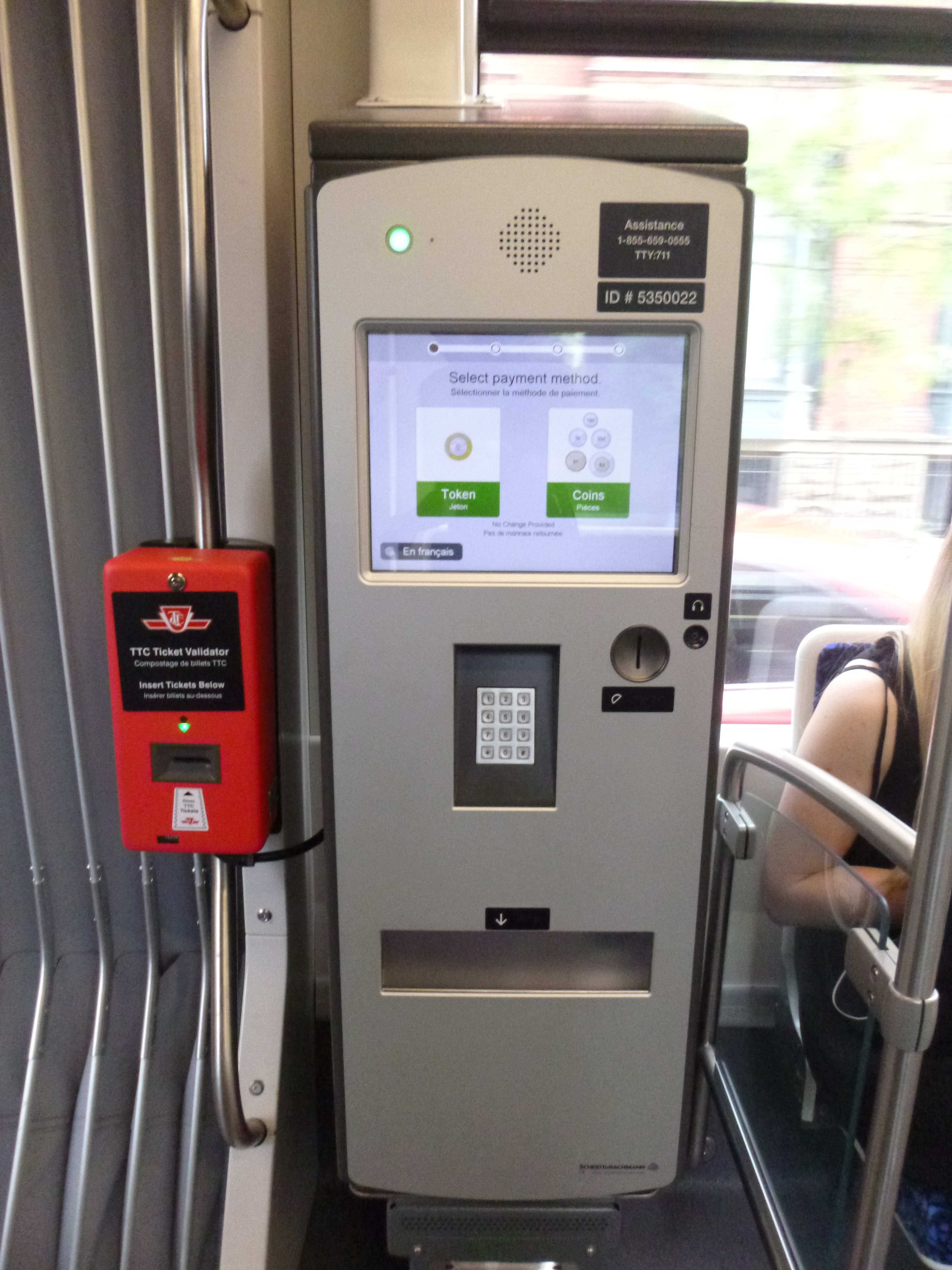 This is one of two fares and transfers vending machines which are located by the middle doors of the new TTC low-floor Flexity Outlook streetcars, they have either a large grey or red box which accept cash (coins only, no change provided) or tokens. From January 2016 until December 2018, These machines also used to take contactless credit/debit cards, but that functionality has since been removed because the machines were failing. Also note that the Presto Transfer tap/swipe reader has been removed from the machine as well since Presto card users no longer need paper transfers as they are now electronically stored on the card as proof-of-purchase, after the initial fare has been paid. Beside the larger red/grey fare and transfer machines is a smaller red ticket validator machine, which is used for legacy concession senior/youth/high-school student TTC tickets, since these are still prominent in the system, instead of dropping the concessionary ticket into the farebox, when entering a bus, legacy high-floor streetcar or the unpaid area of a subway station, on the TTC's new low-floor streetcars the concessionary ticket is stamped into one of the ticket validator boxes, which stamps the date and time on it which serves as proof-of-purchase.